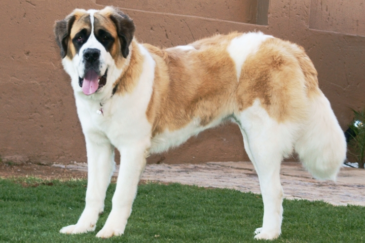 Photograph of a Saint Bernard Bitch Dog